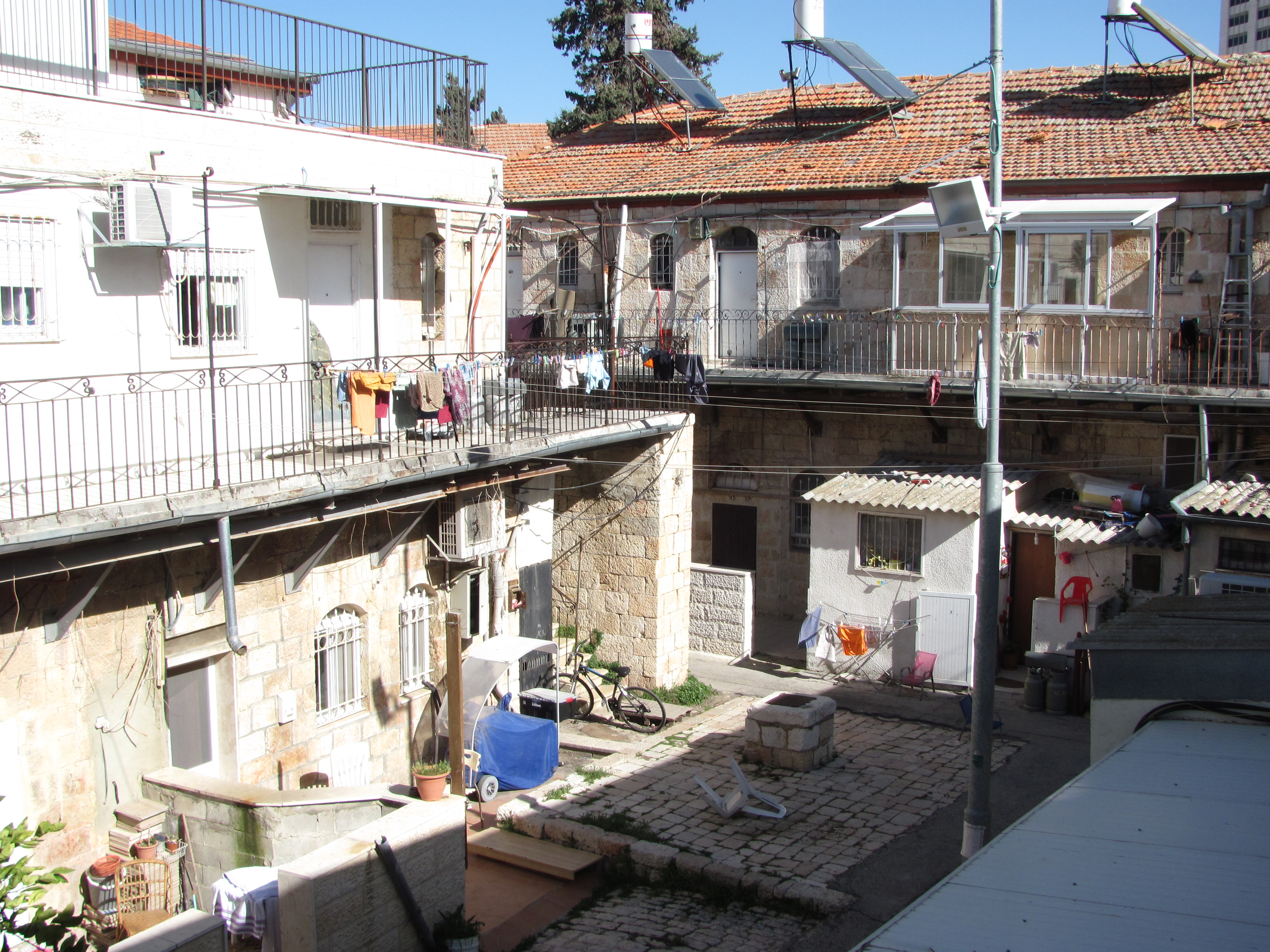 View of row houses and courtyard (with sealed well) of Knesset Bet neighborhood in Nachlaot, Jerusalem, Israel.